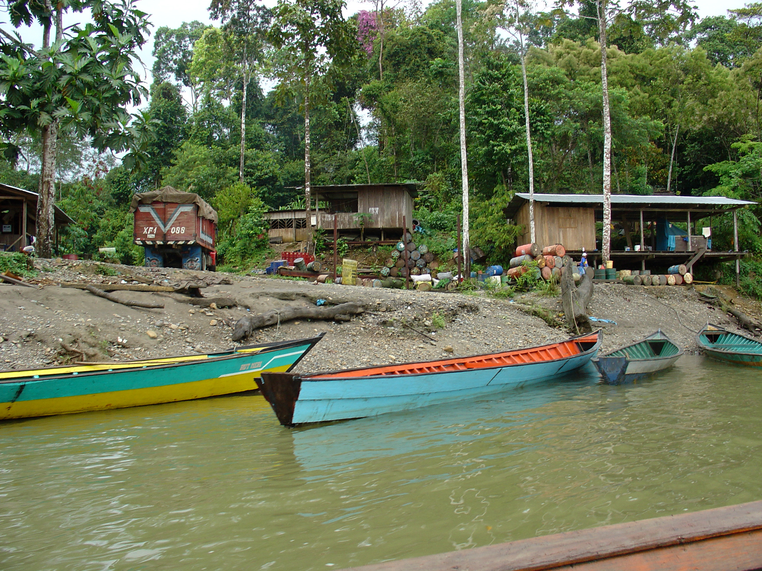 Please, have this description accessible to all by translating it in different languages.